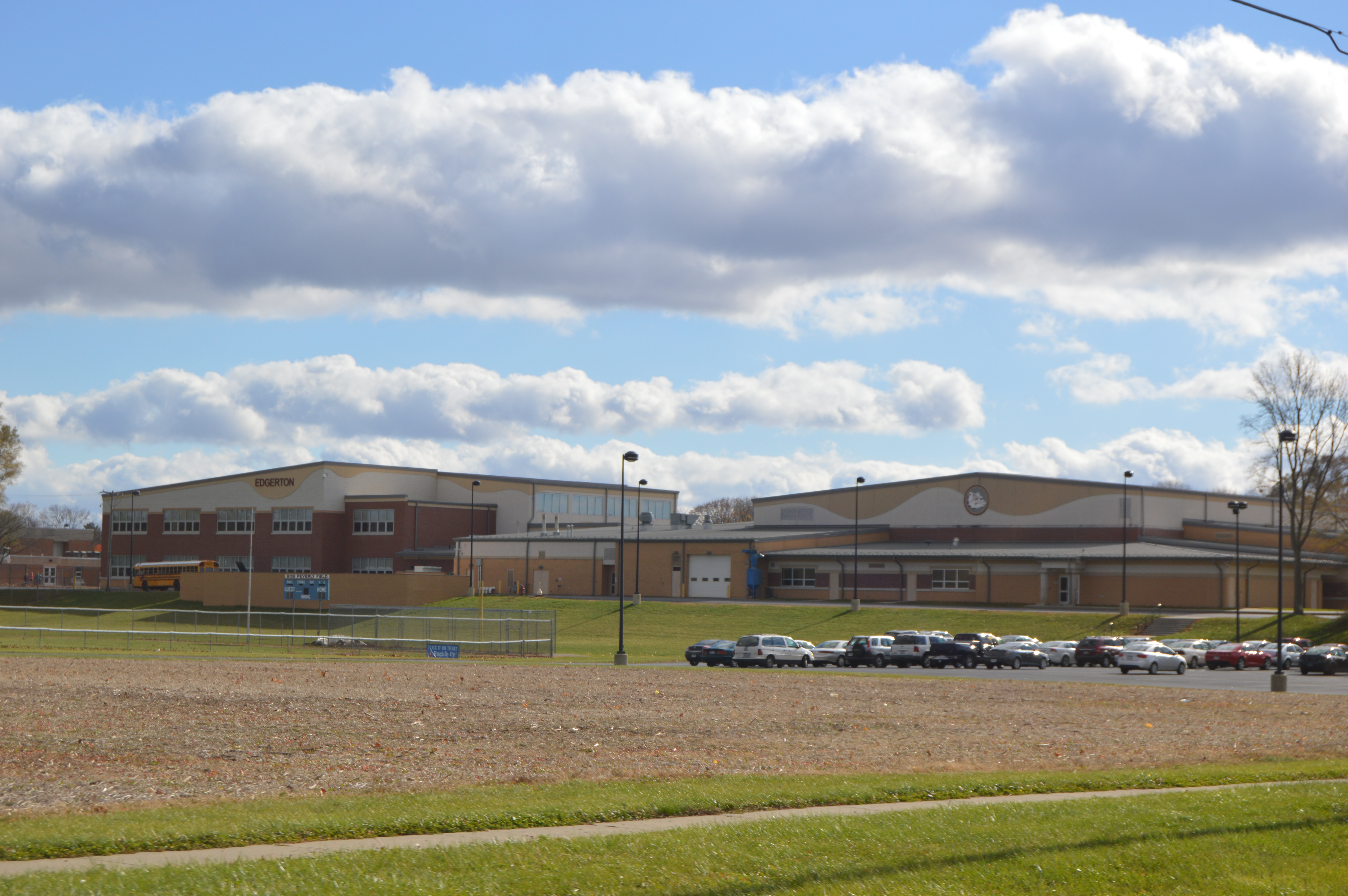 Northern side of Edgerton High School as seen from Michigan Avenue (State Route 49) in far northern Edgerton, Ohio, United States.